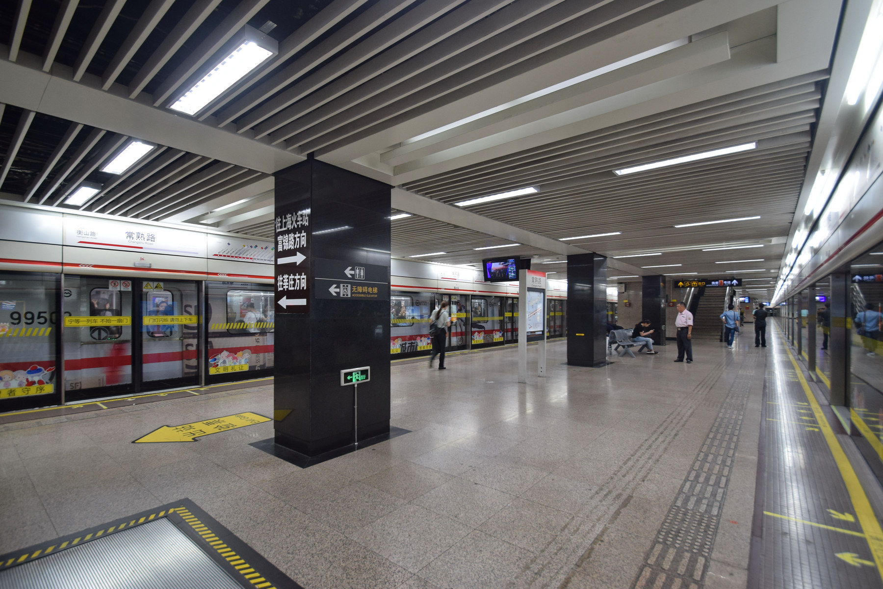 Line 1 Platform of Changshu Road Station, Shanghai Metro